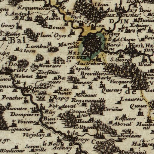 Mouriez neighbourhood, in the baillage of Hesdin. Portion of map extracted from Sanson N. work Atrebates - Evesché d'Arras - Comté d'Artois, published in 1656.